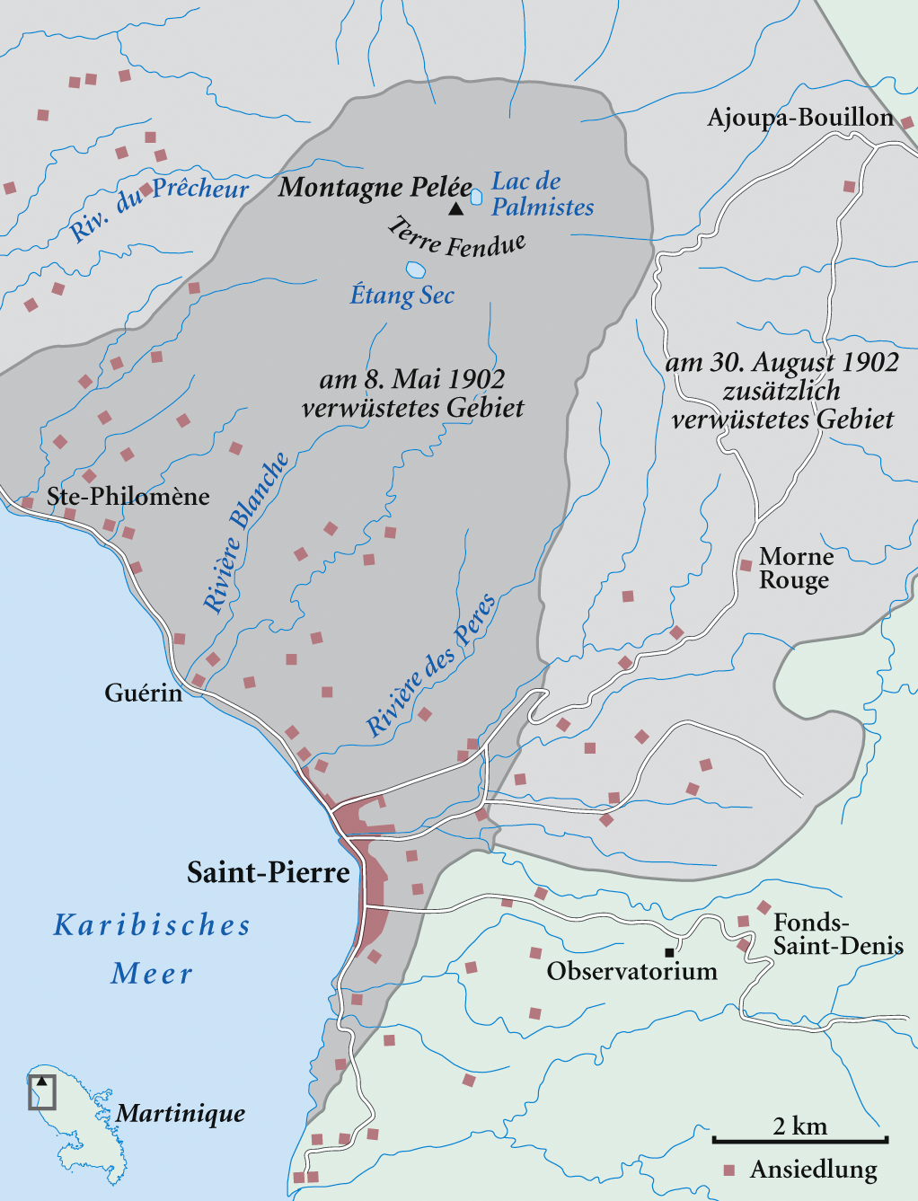 Map of the devastation area of 1902 eruption of Mount Pelée